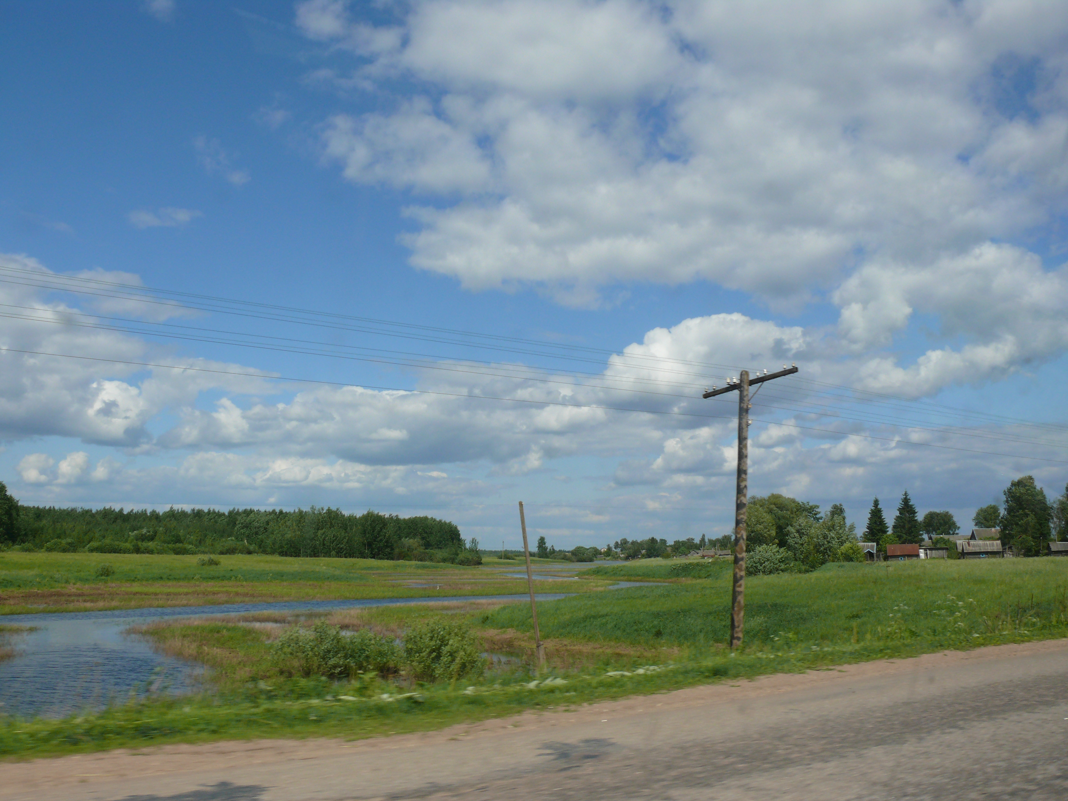 Veksha river and Uspolon village. Shimsky district, Novgorod oblast, Russia